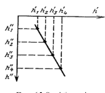 Correlation line for non-parallel layering